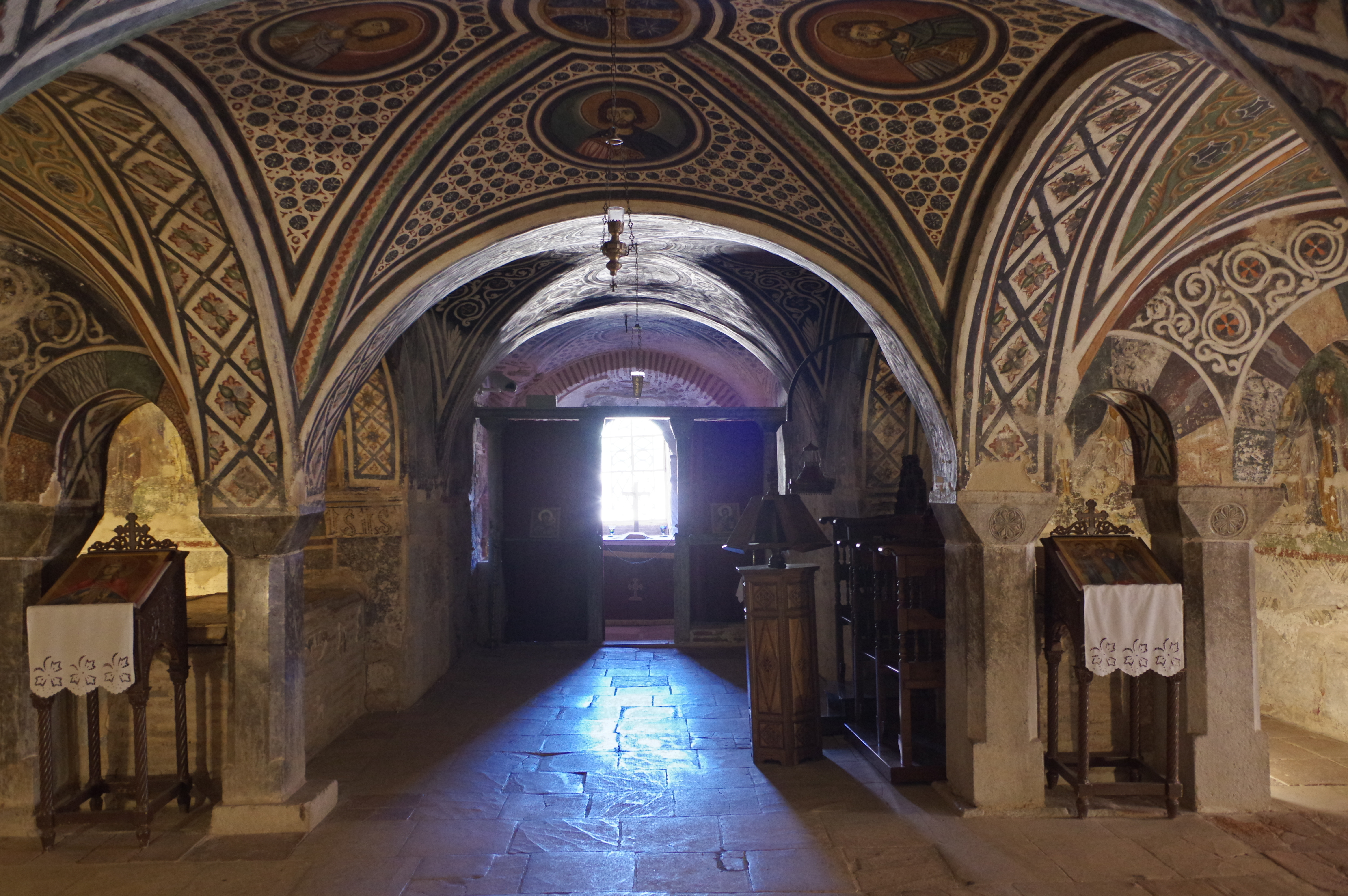 Greece, Monastery of Hosios Loukas